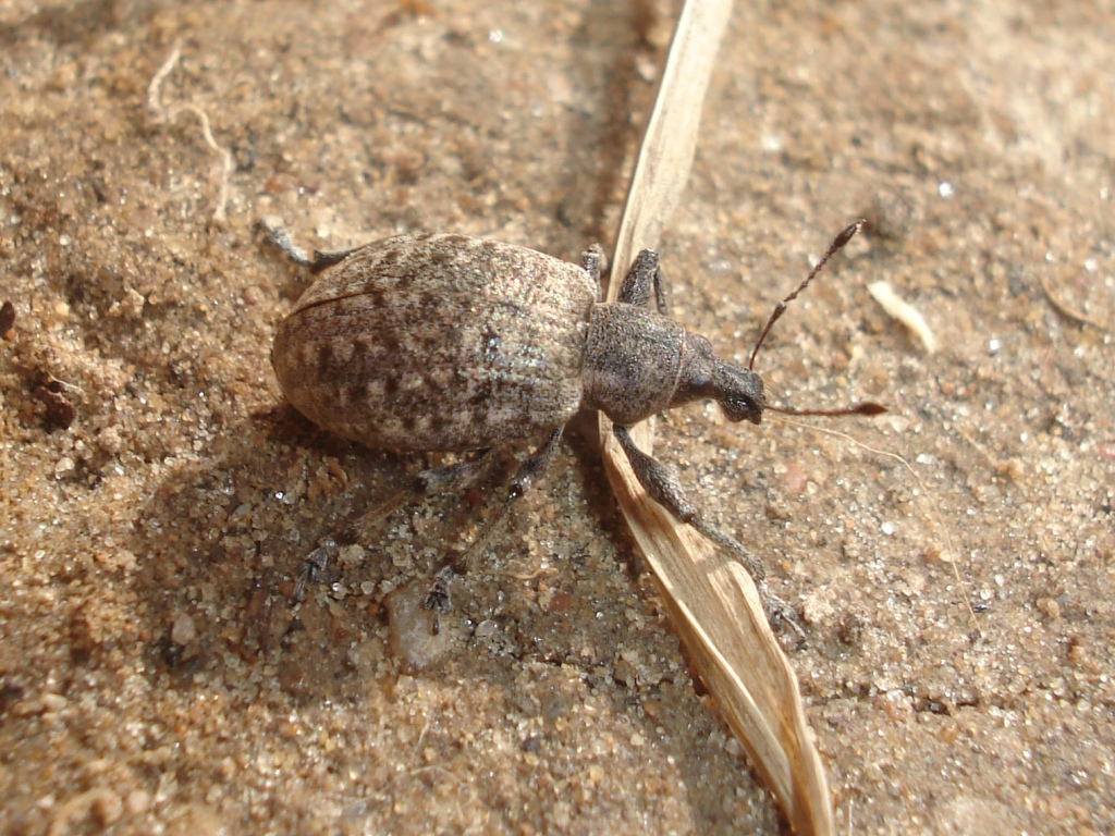 Liophloeus tessulatus